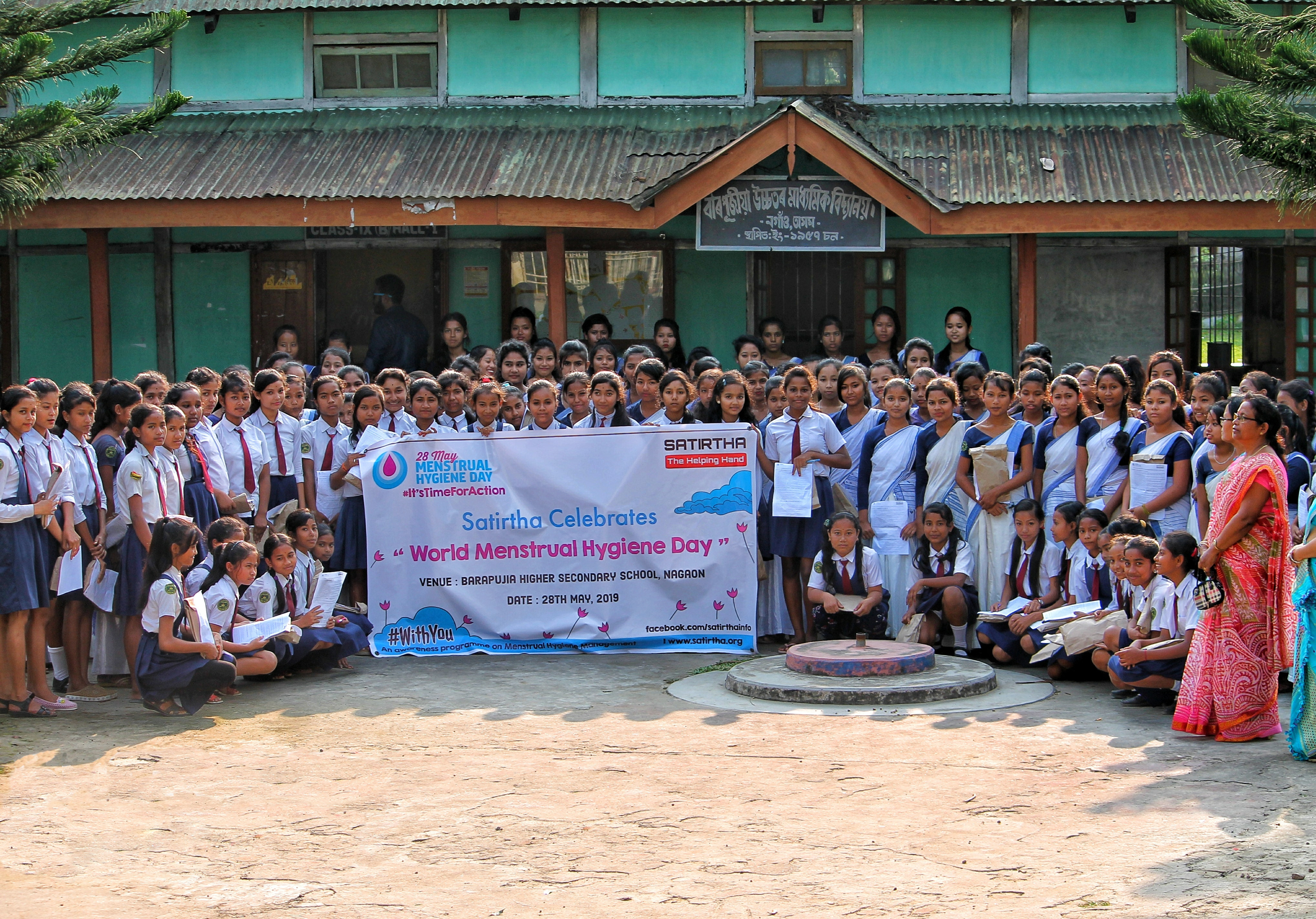 World Menstrual Hygiene Day celebration by Satirtha- The Helping Hand a non profit organization